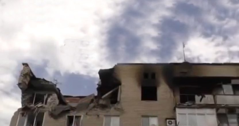 Damaged building in Donetsk suburb of Marinka, July 22, 2014.